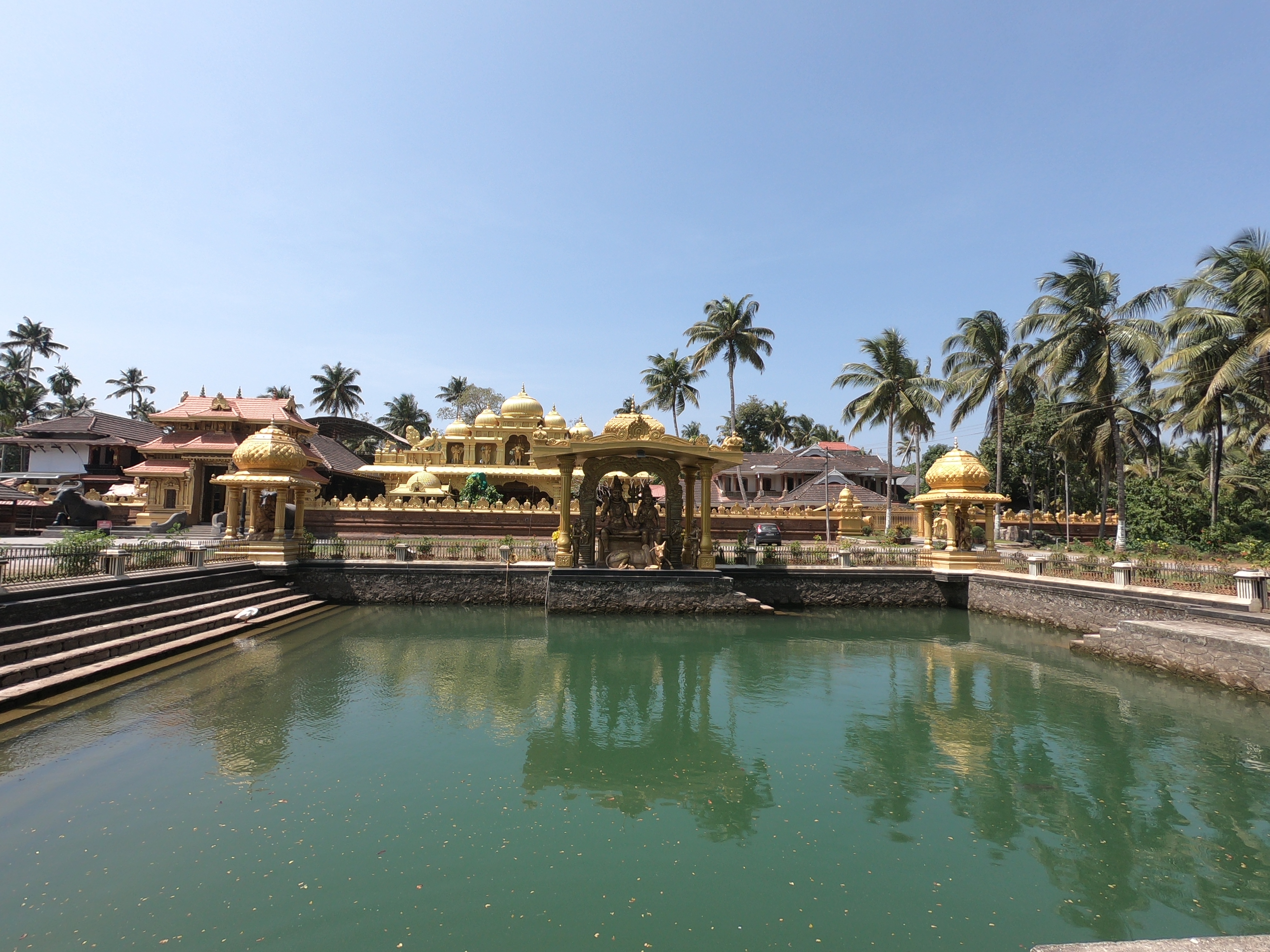 Kanadikavu Shree Vishnumaya kuttichathan swamy temple